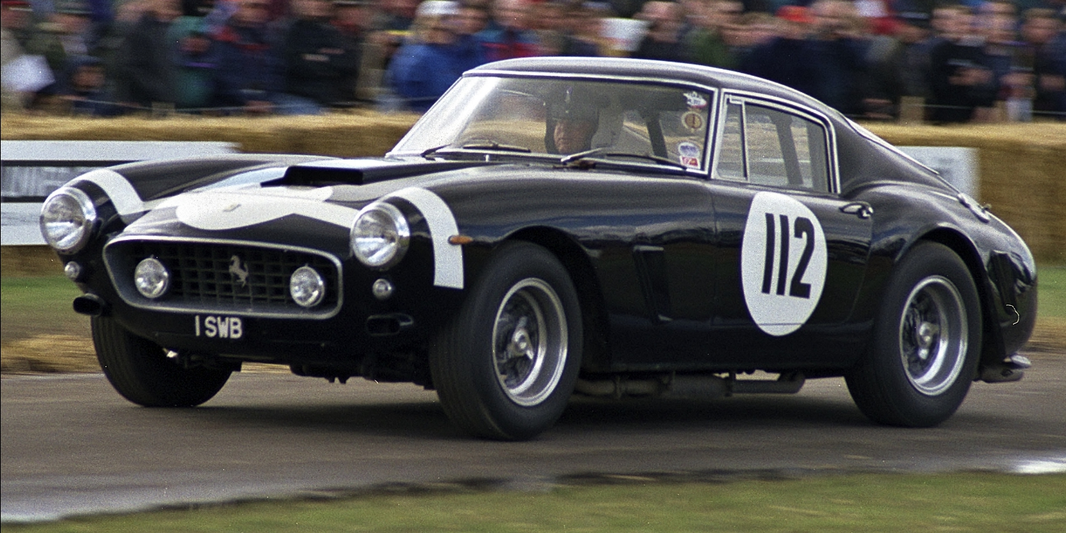 Ferrari 250GT SWB- "1 SWB" - 1997 GOODWOOD FESTIVAL OF SPEED Owned by same owner since 1984, the second of two Rob Walker/Moss SWBs both of which were Goodwood TT winners racing in blue with white noseband and Moss’ race number 7. Shown is Chassis 2735 with number plate 1 SWB, formerly B400. This model is the rarest and most powerful and potent execution of the SWBs, the ‘61 SEFAC Hot Rod. Moss raced Chassis 2735 6 times, winning 5 times and got the Le Mans GT lap record the other time before retiring. He describes it as the best GT car in the world. Chassis number 2119. The Ferrari 250 GT SWB was built in 1960 and was the 39th model built. It has a 3-litre V12 engine produces around 300bhp. This gives it a 0-60mph time of 6.2 seconds and a top speed of 152mph.